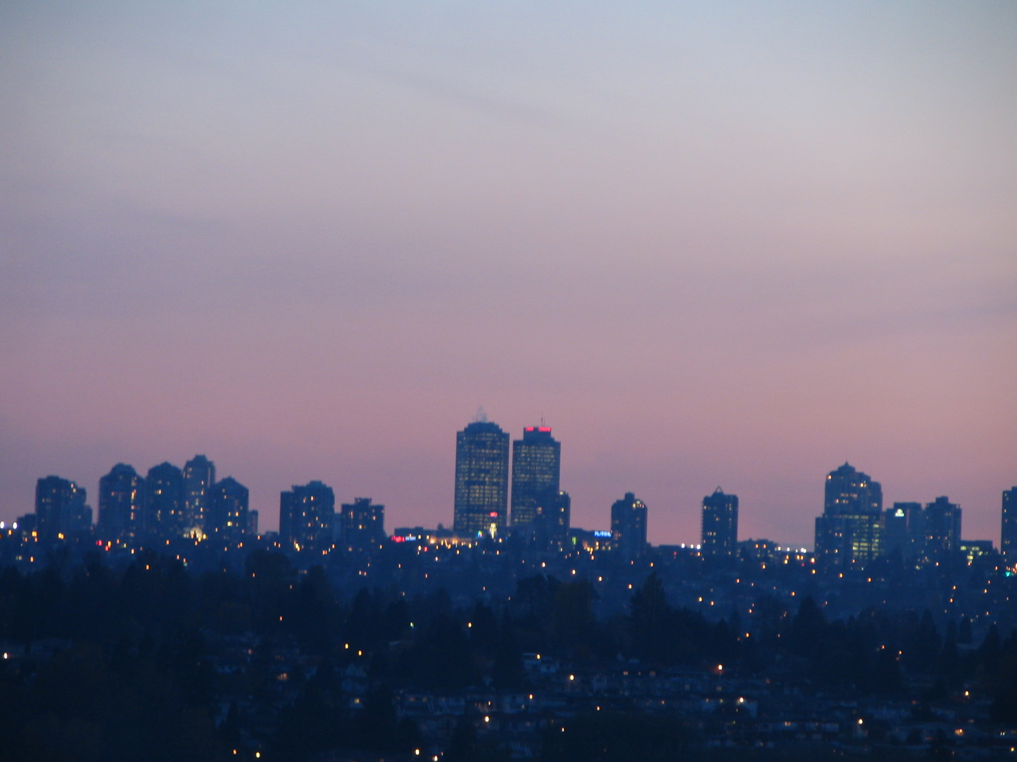 This image was taken by me, Flying Penguin of Pacific Spirit Photography ( in Burnaby, British Columbia, Canada.